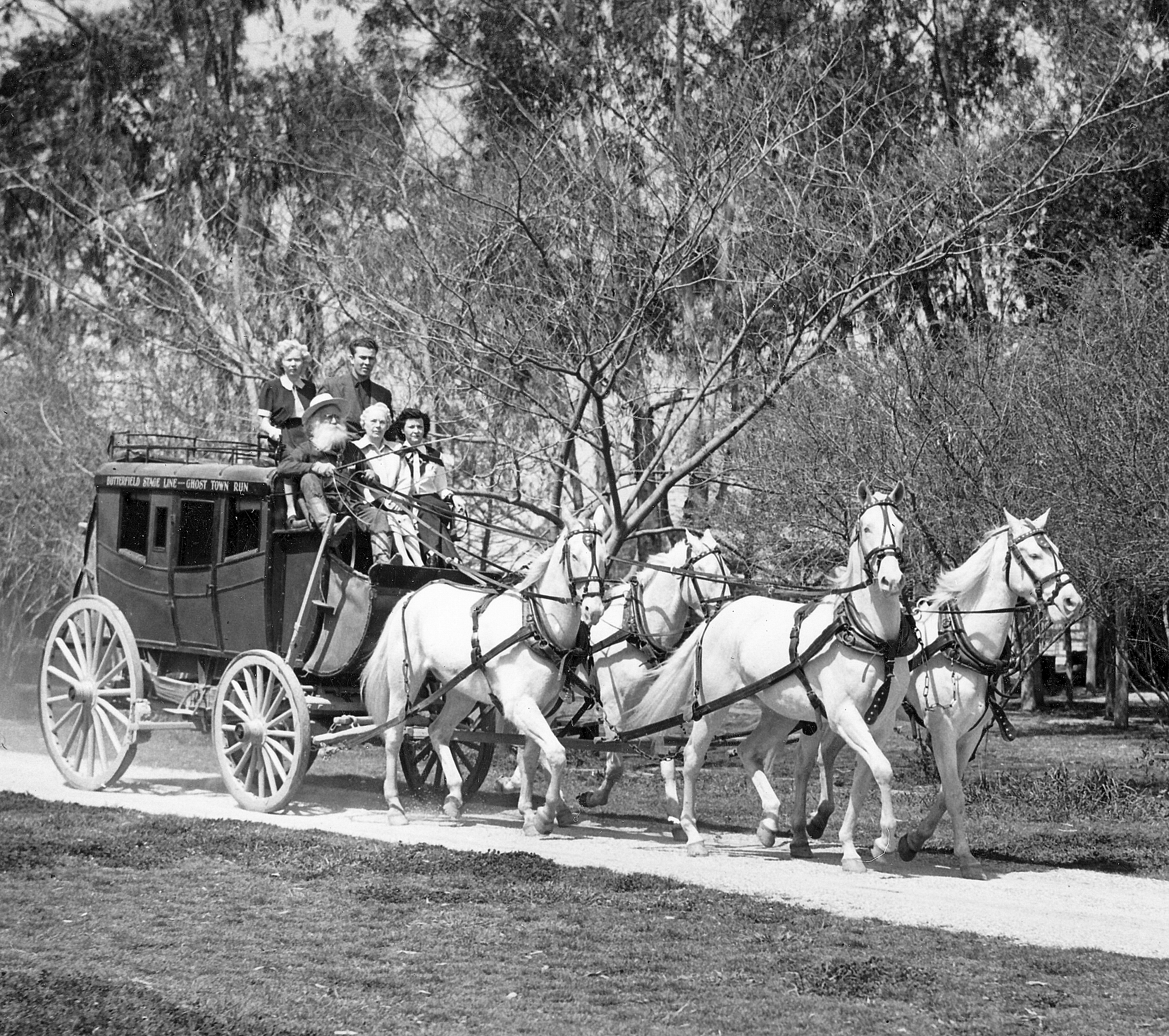 There are no known copyright restrictions on this image. All future uses of this photo should include the courtesy line, "Photo courtesy Orange County Archives."